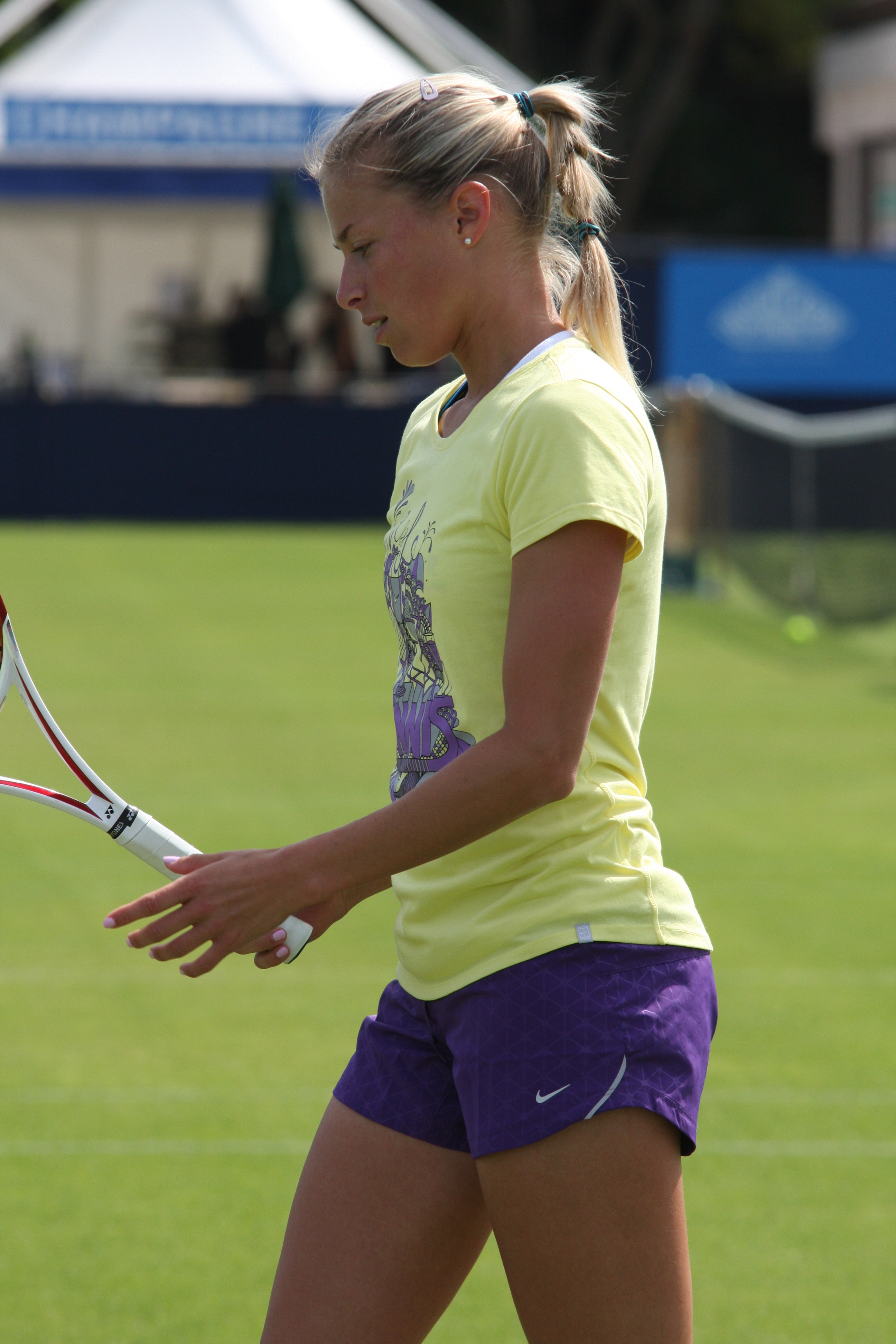 Andrea Hlavackova Aegon International Eastbourne 2011